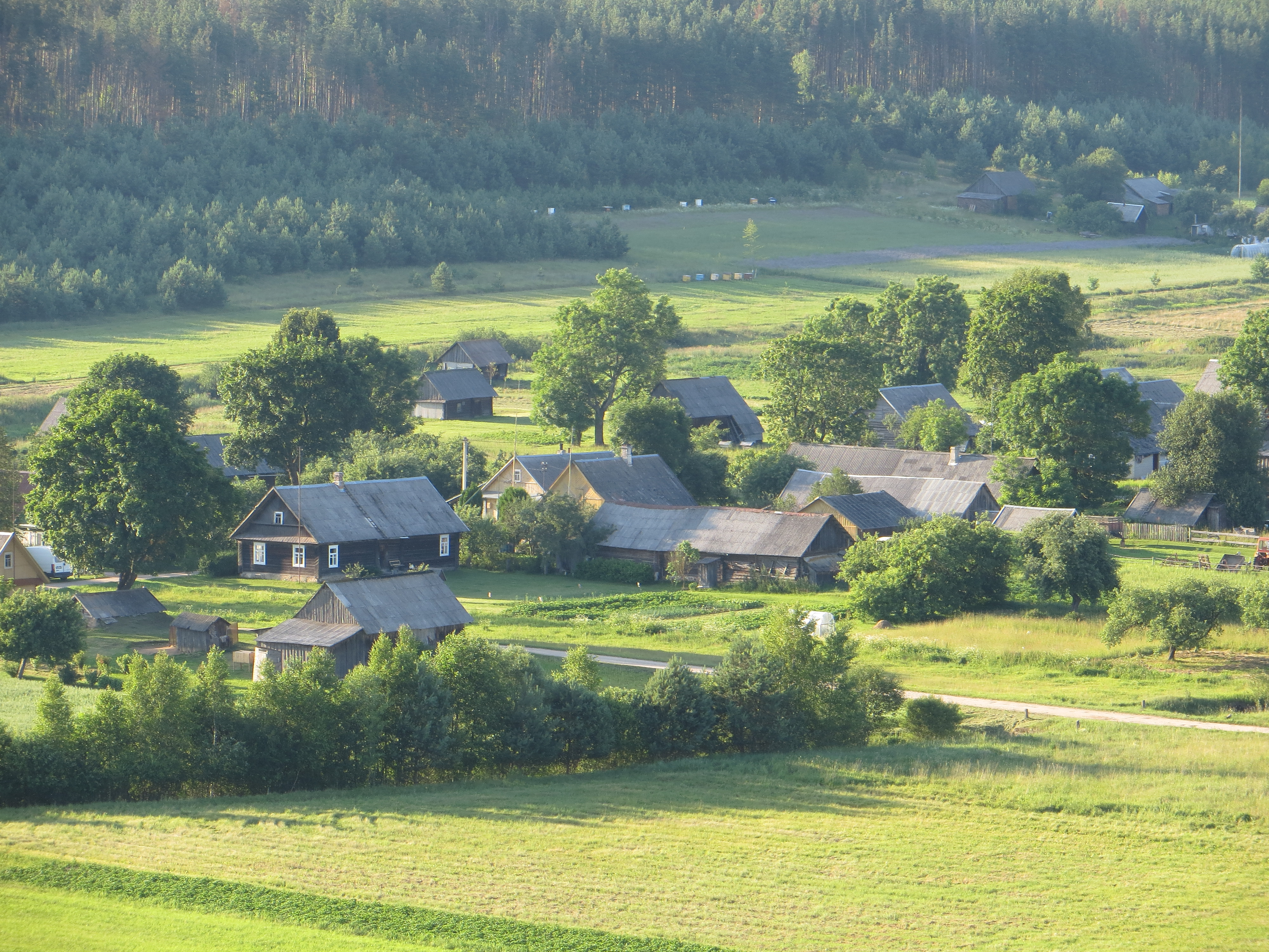 Ignalinos sen., Lithuania